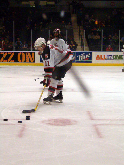 Photo of Zach Parise